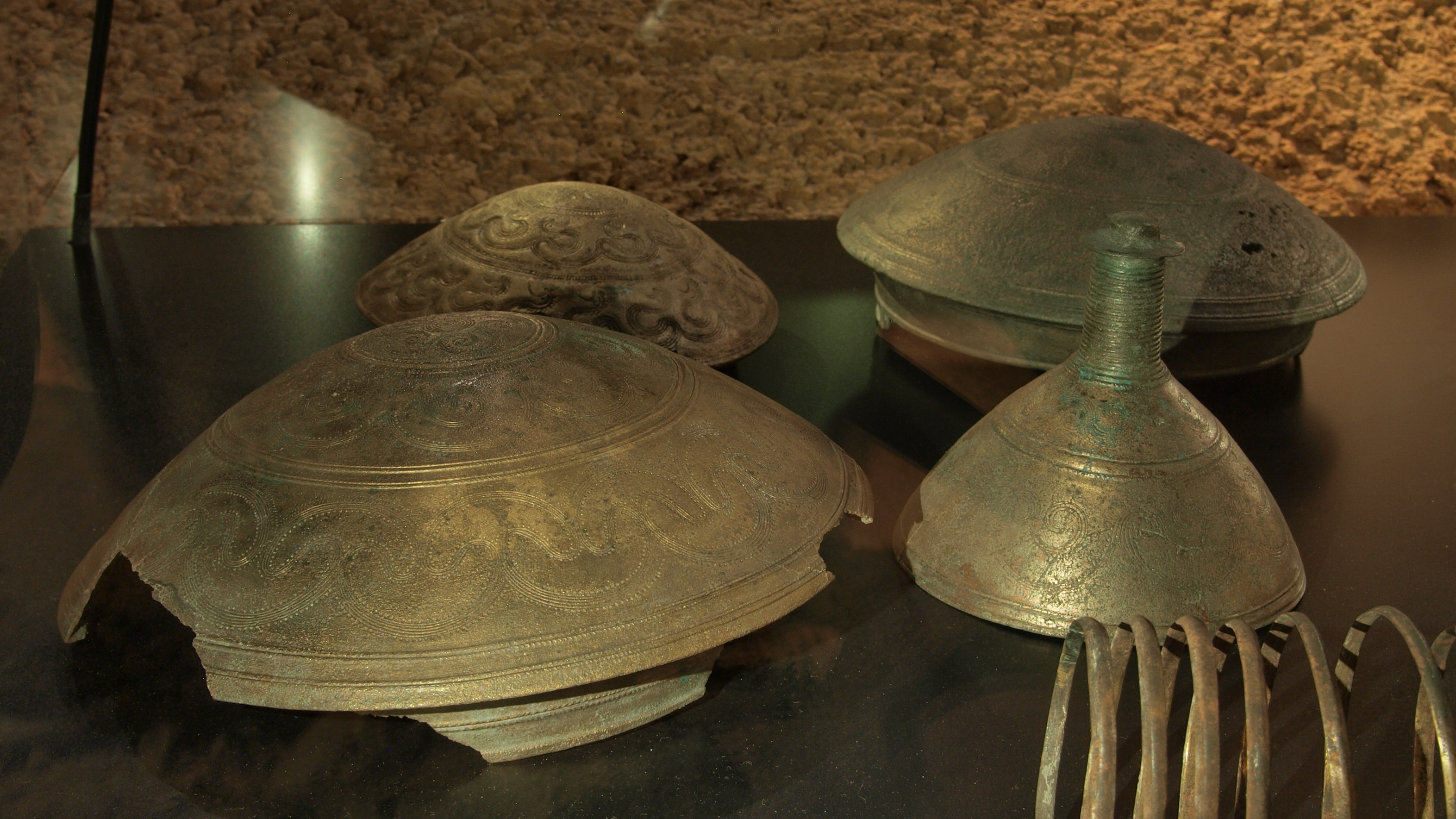 Four bronce age belt appliances from the bronce hoard of Kronshagen, Kreis Rendsburg-Eckernförde, Germany. Circa 900 B.C. At Archäologisches Museum Hamburg